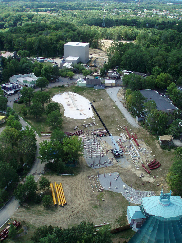 Diamondback during construction at Kings Island.